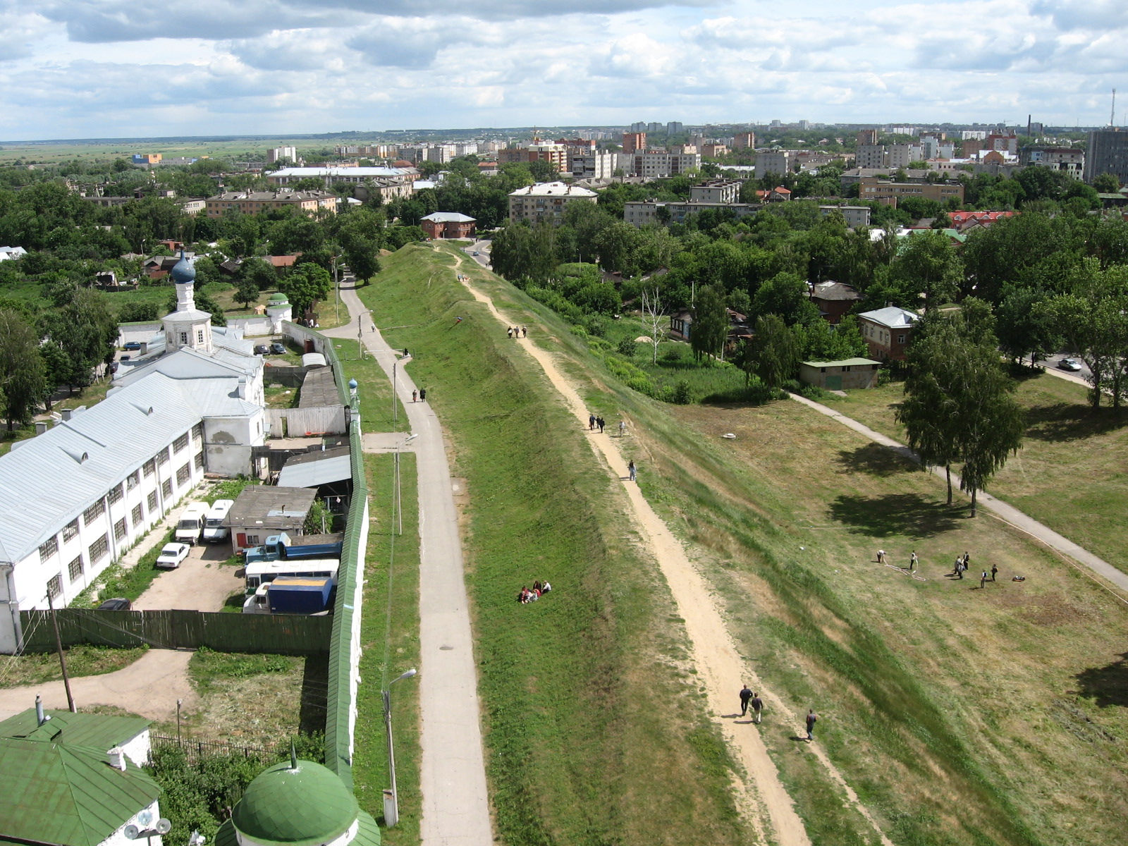 View from belltower. Bank & ditch